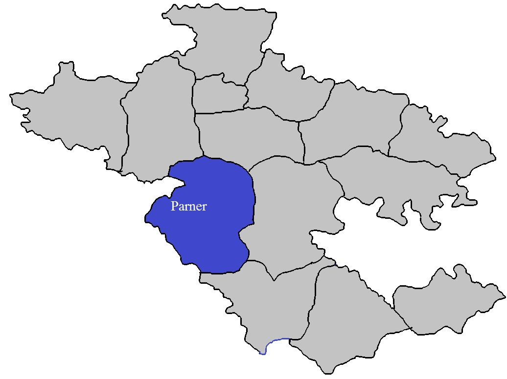 Parner Tehsil in Ahmednagar District